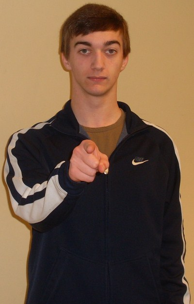 The only posture of the ASL sign YOU (en:1@InsideChesthigh-FingerForward)